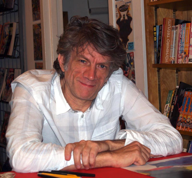 Comics creator James Romberger at a November 26, 2014 book signing for The Late Child at Jim Hanley's Universe in Manhattan. This photo was created by Luigi Novi. It is not in the public domain, and use of this file outside of the licensing terms is a copyright violation.